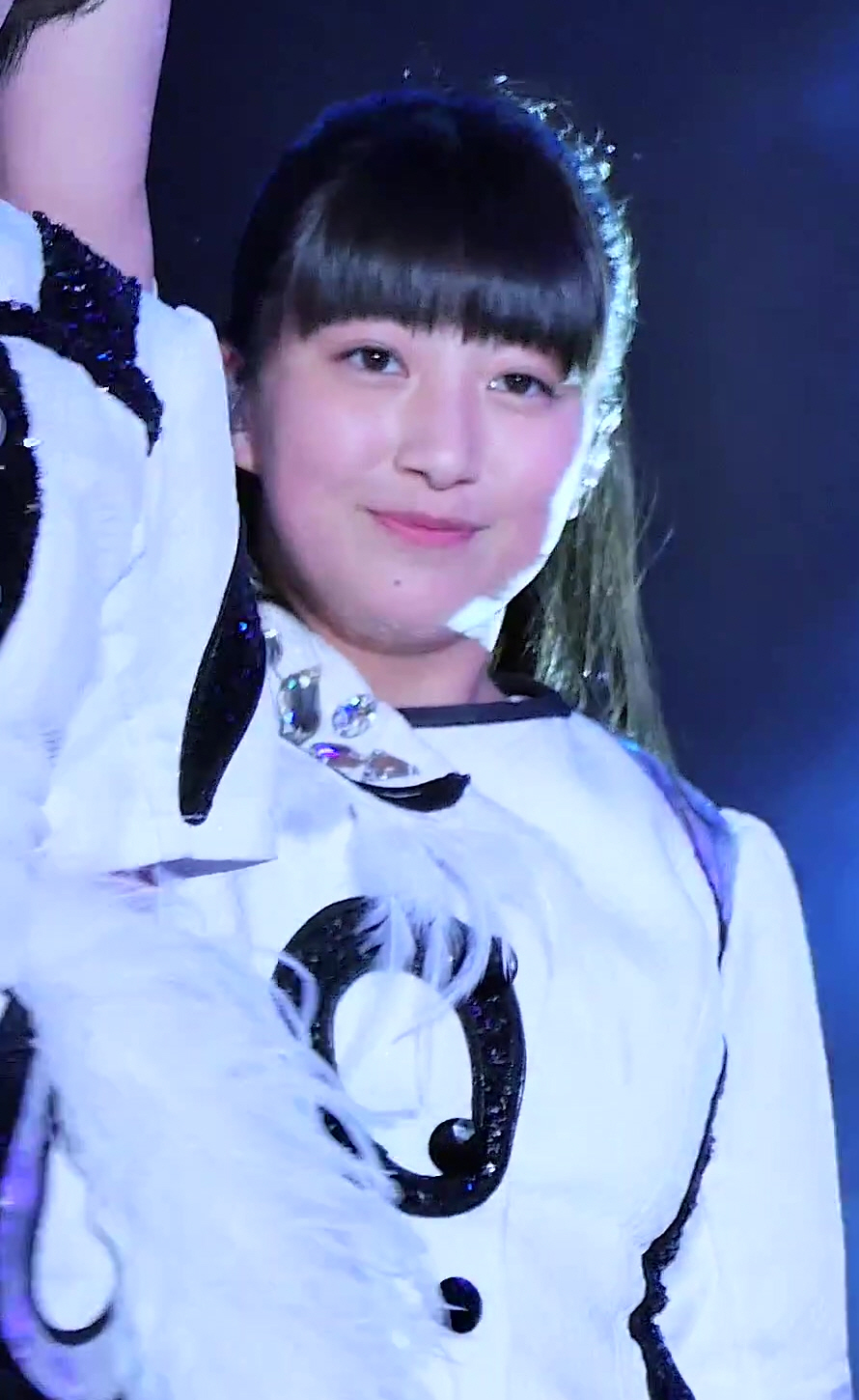 161006 AMN 빅 콘서트 - 마키노 마리아 모닝구무스메 메들리 직캠